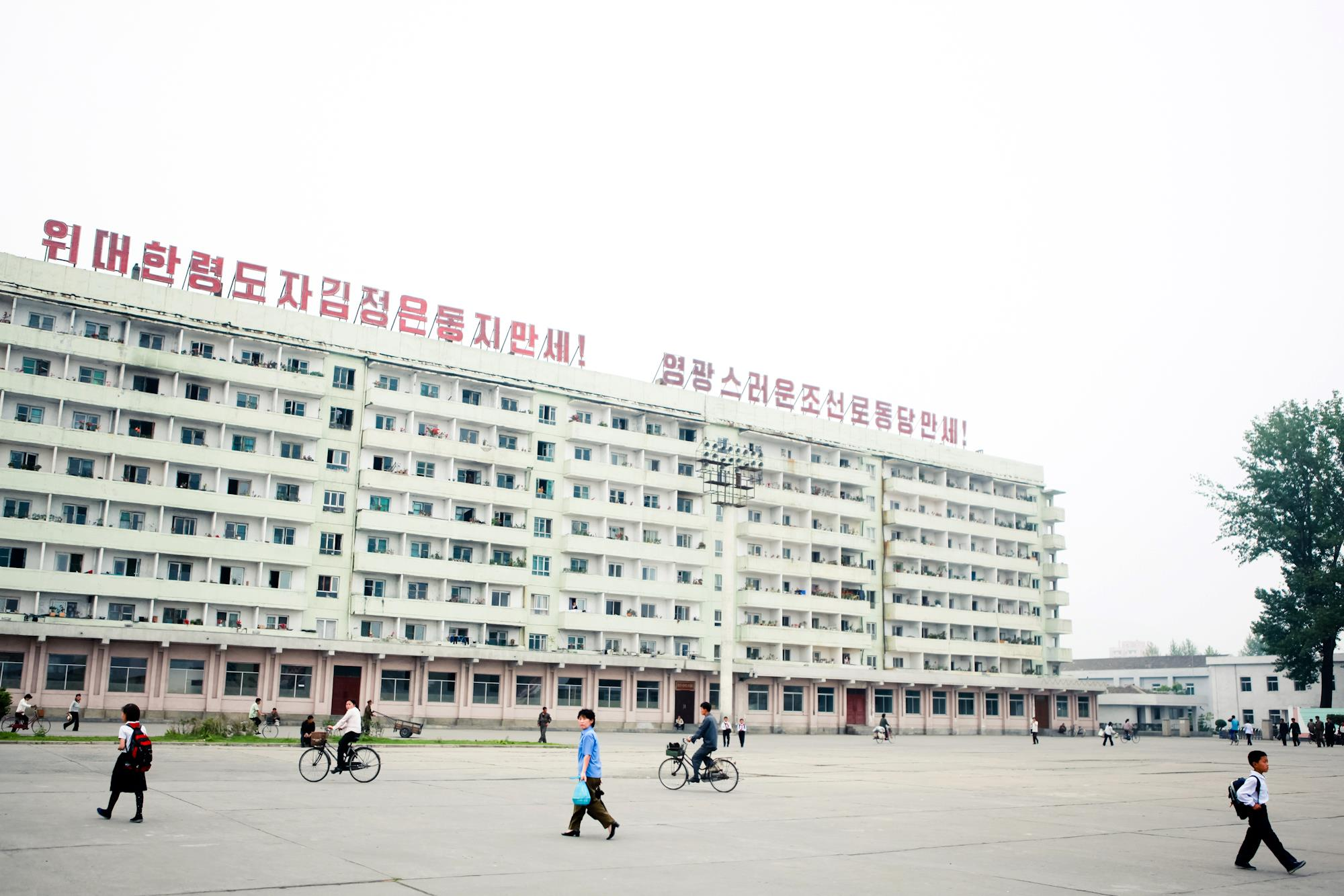 A view of the main square near Grand Theatre in Hamhung